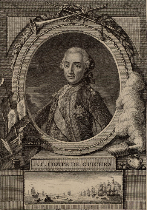 The count of Guichen